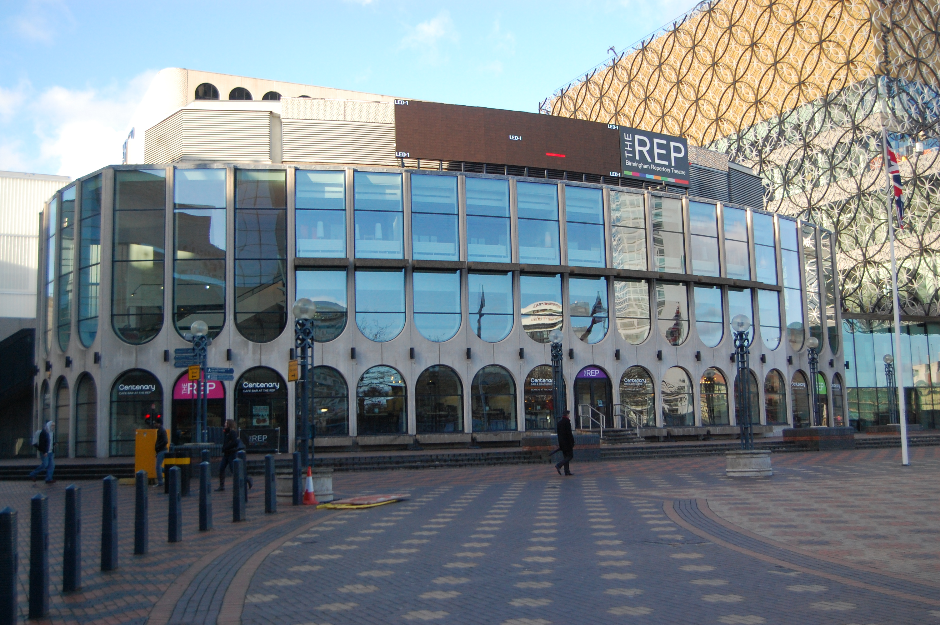 Birmingham Repertory Theatre, showing its connection to the Library of Birmingham